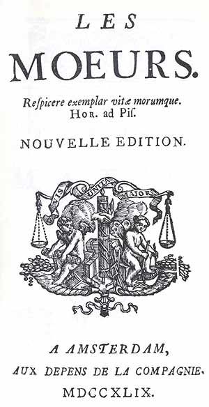 front page of the issue "Les Mœurs" (1748) by François-Vincent Toussaint